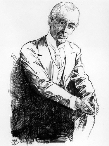 Portrait of William John Locke (1863-1930), a novelist.